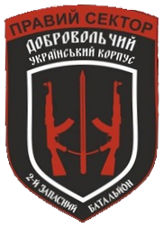 Sleeve patch of the 2nd Replacement Battalion for the Ukrainian Volunteer Corps (UVC)